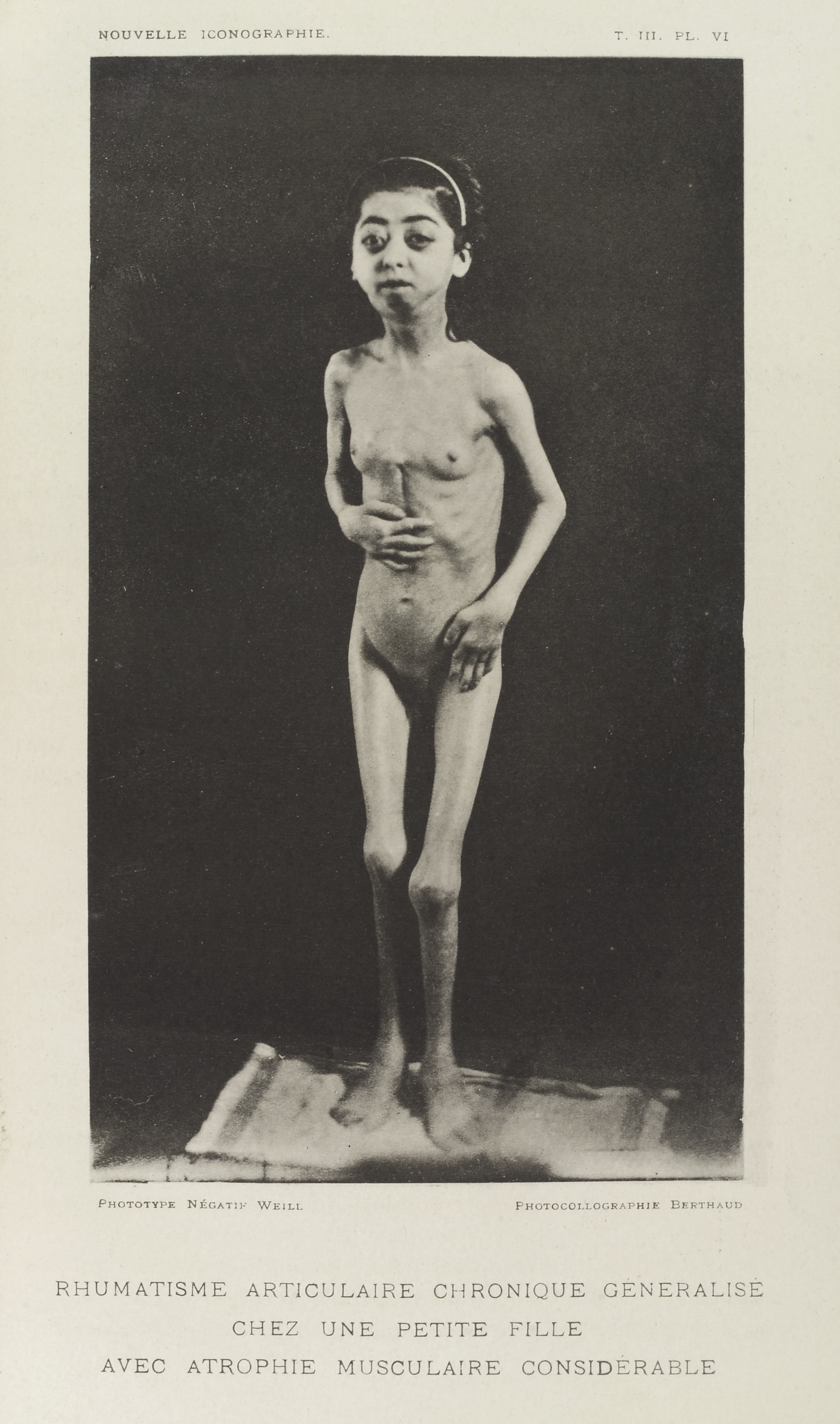 Photo of young girl with severe muscular atrophy and chronic rheumatism. Taken from 'Nouvelle Iconographie de la Salpetriere'; Clinique des Maladies du Systeme Nerveux' published under the direction of Professor Charcot et al. Third Volume. Rare Books Keywords: Wasting; Rheumatism; Anatomy; Emaciation; Atrophy